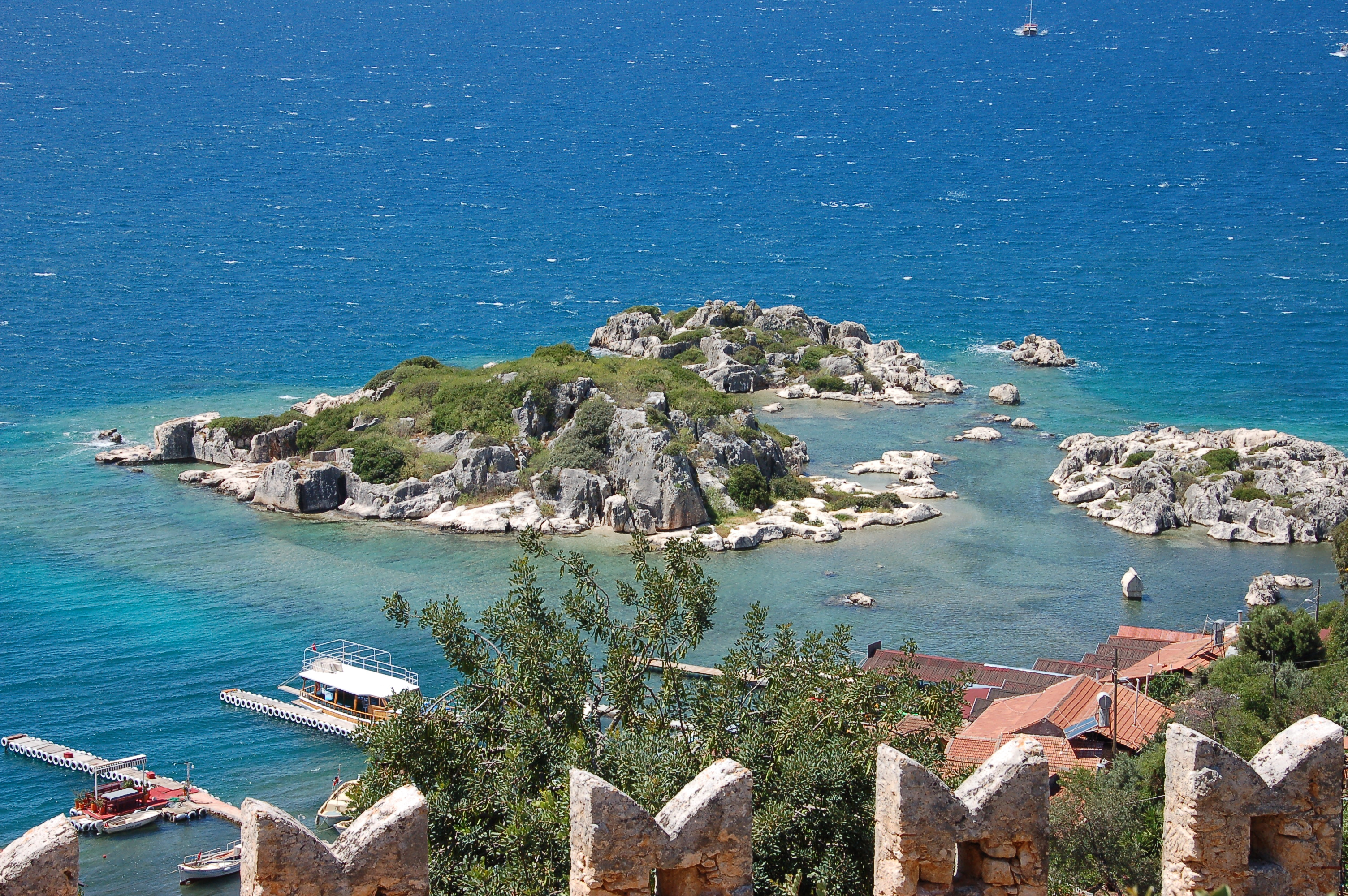 Parts of the sunken city Simena from the Byzantine castle, built in the Middle Ages above the village.